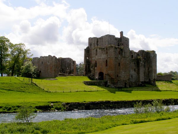 Brougham Castle, Cumbria, as seen from the north east, across the River Eamont.